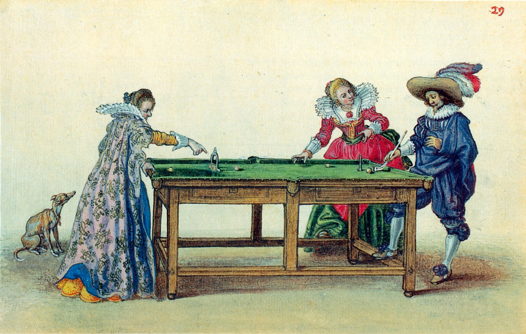 A Game of Billiardstitle QS:P1476,en:"A Game of Billiards" label QS:Len,"A Game of Billiards"